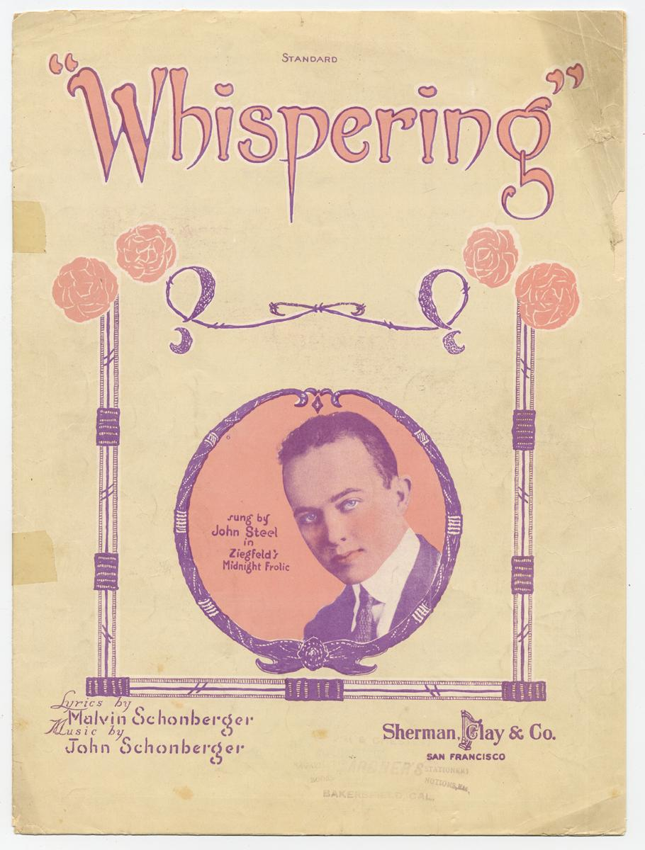 Sheet music cover of "Whispering".